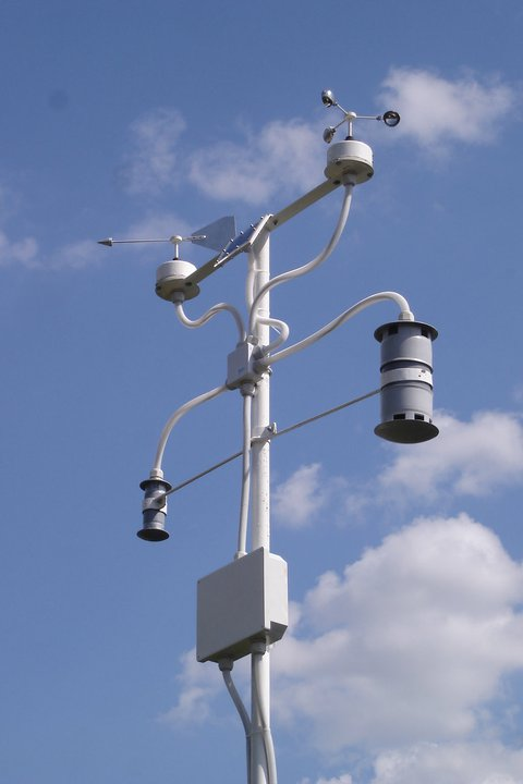 A close view of an automatic weather station measuring various climate elements.